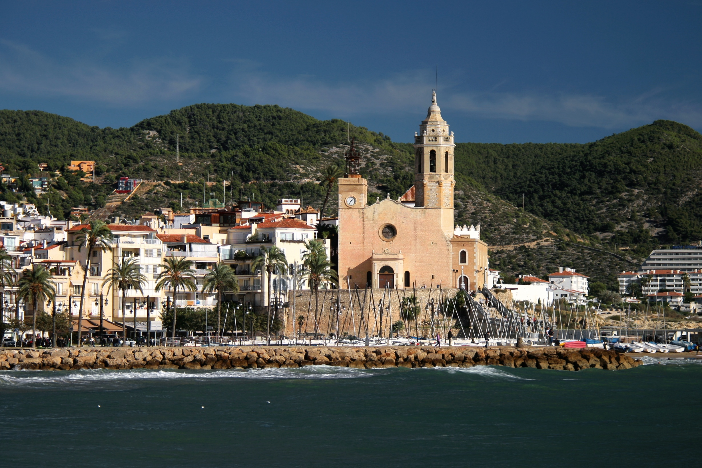 Sitges (Barcelona, Spain)